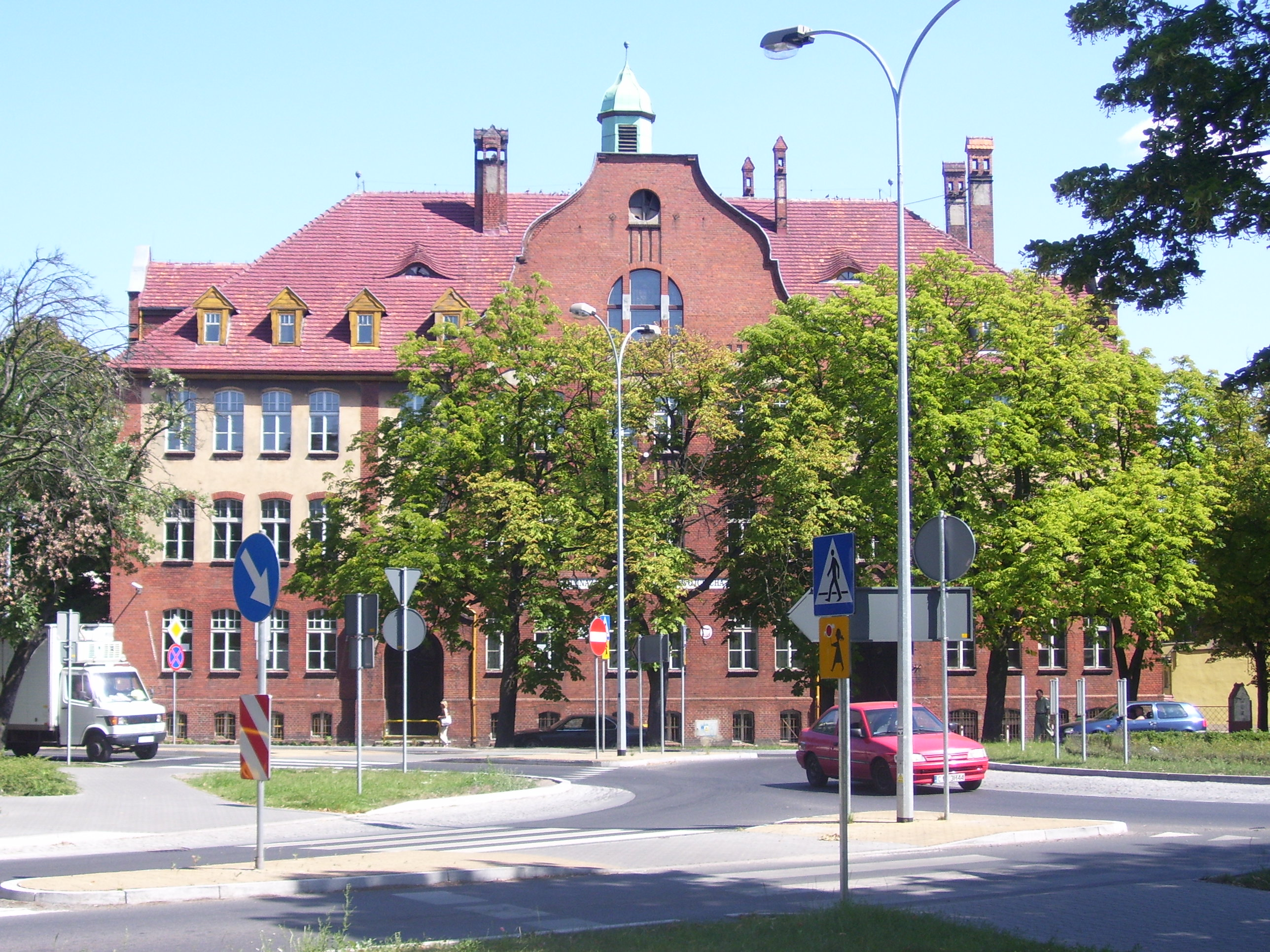 St Wojciech Lower Secondary School in Inowrocław, Poland.